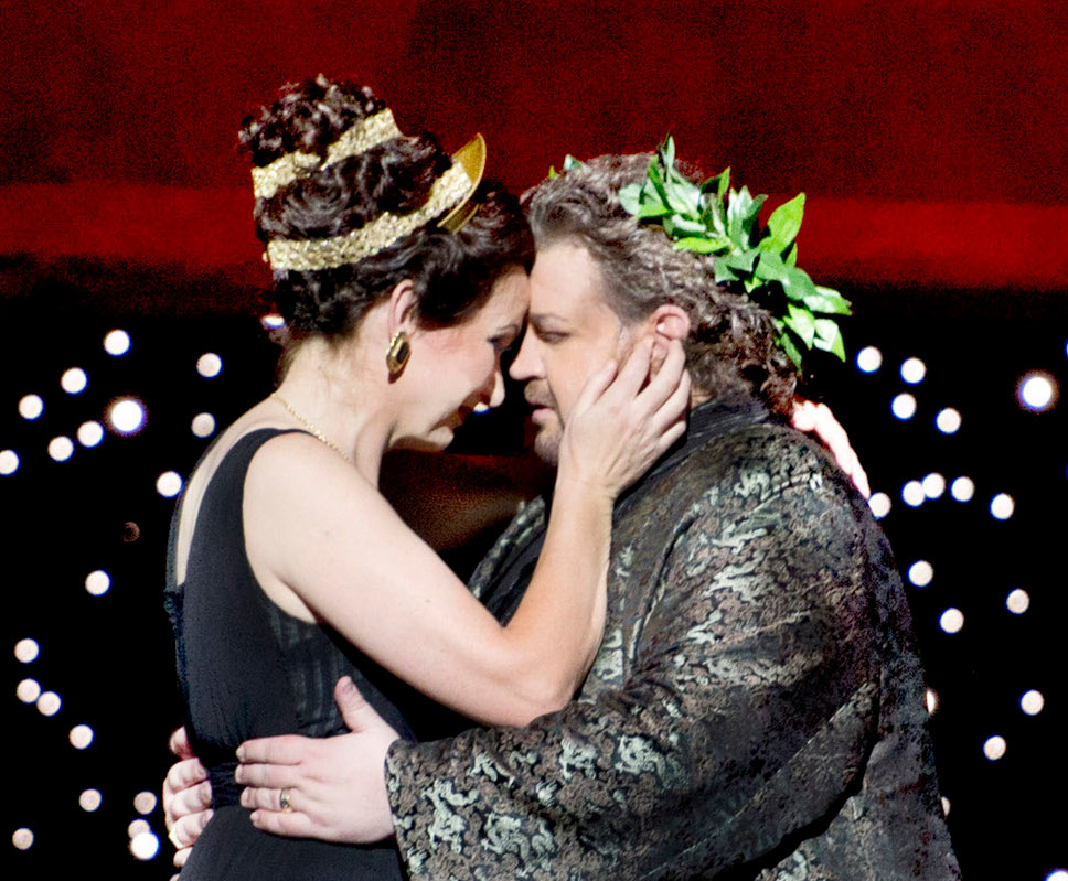 Production of Ariadne auf Naxos at Hamburgische Staatsoper 2012, stage photo: Anne Schwanewilms as Primadonna / Ariadne (left), Johan Botha as Tenor / Bacchus (right).